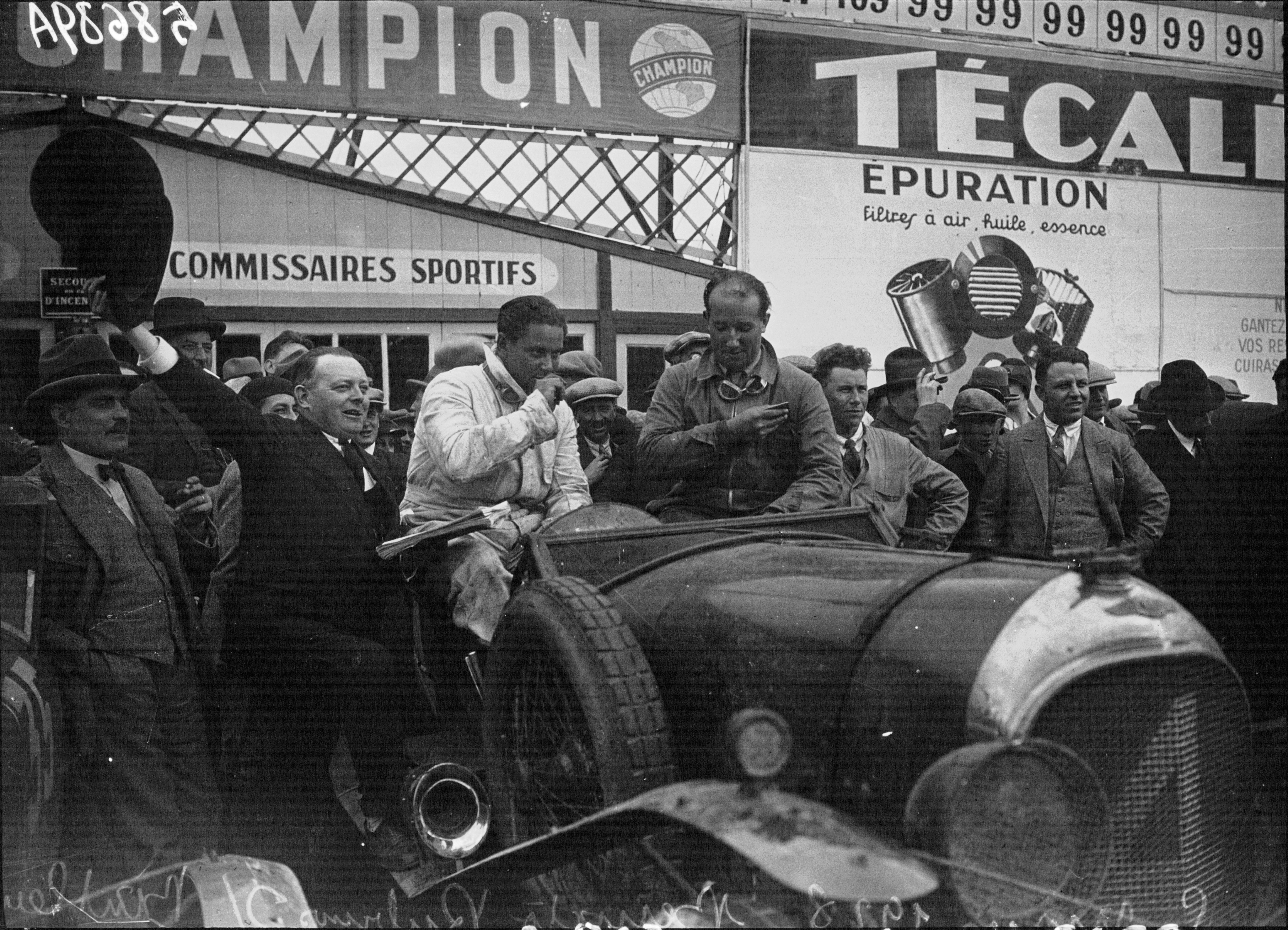 Barnato and Rubin at the 1928 24 Hours of Le Mans.